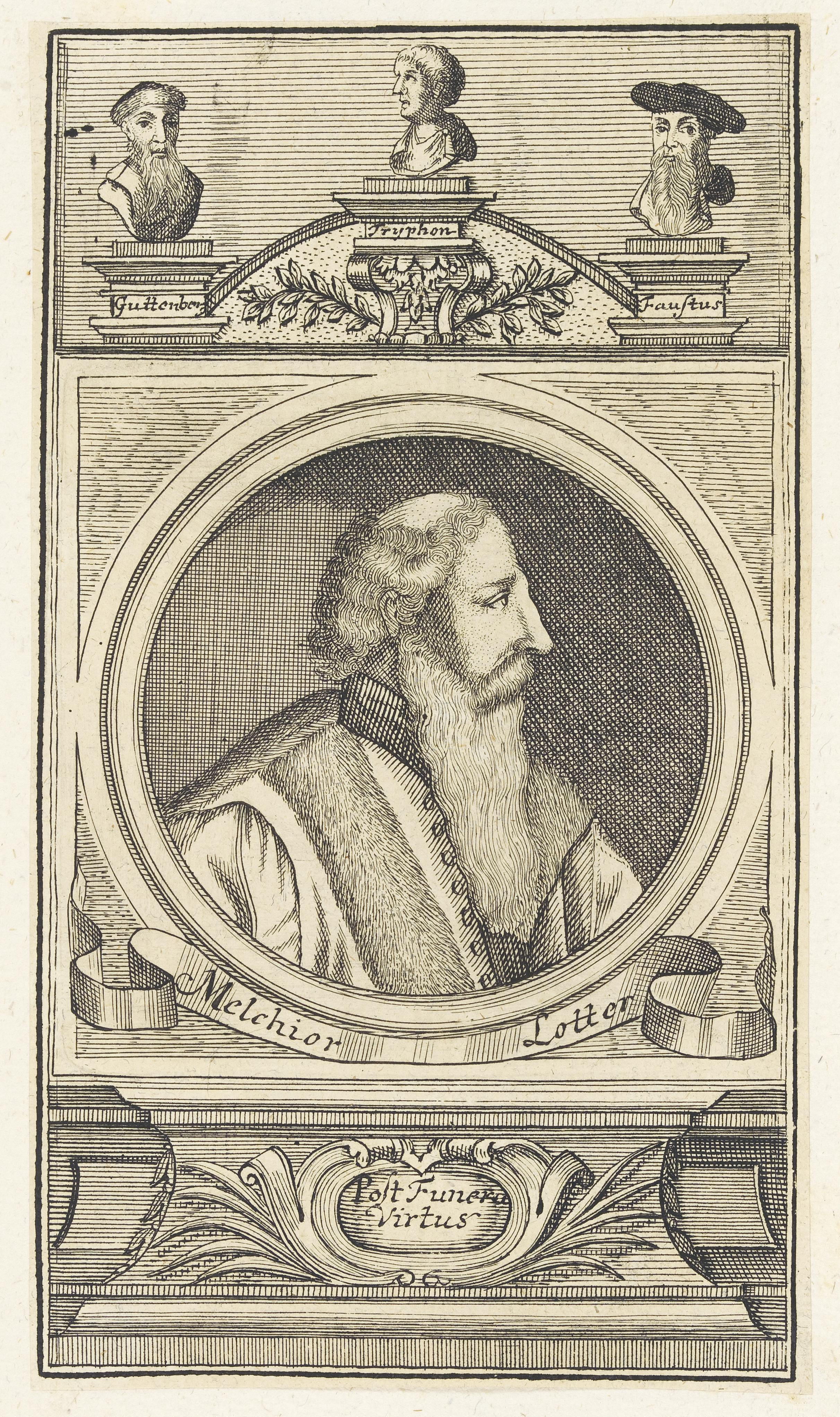 Melchior Lotter the Elder (1470-1549), German printer and publisher